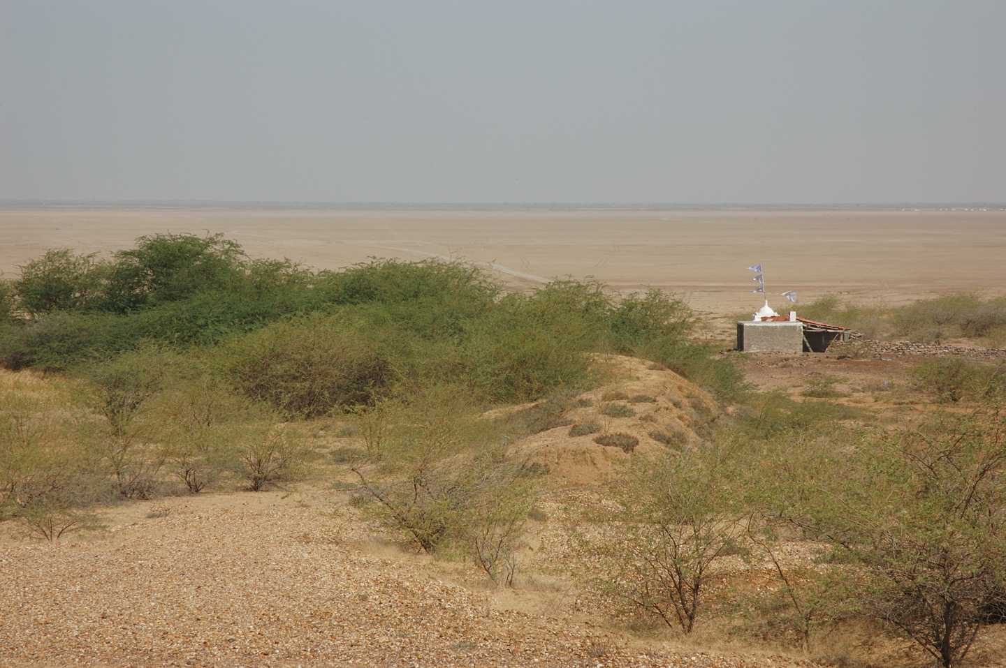 A rural temple in the middle of the Rann of Kutch, in Varnu, Gujarat, India